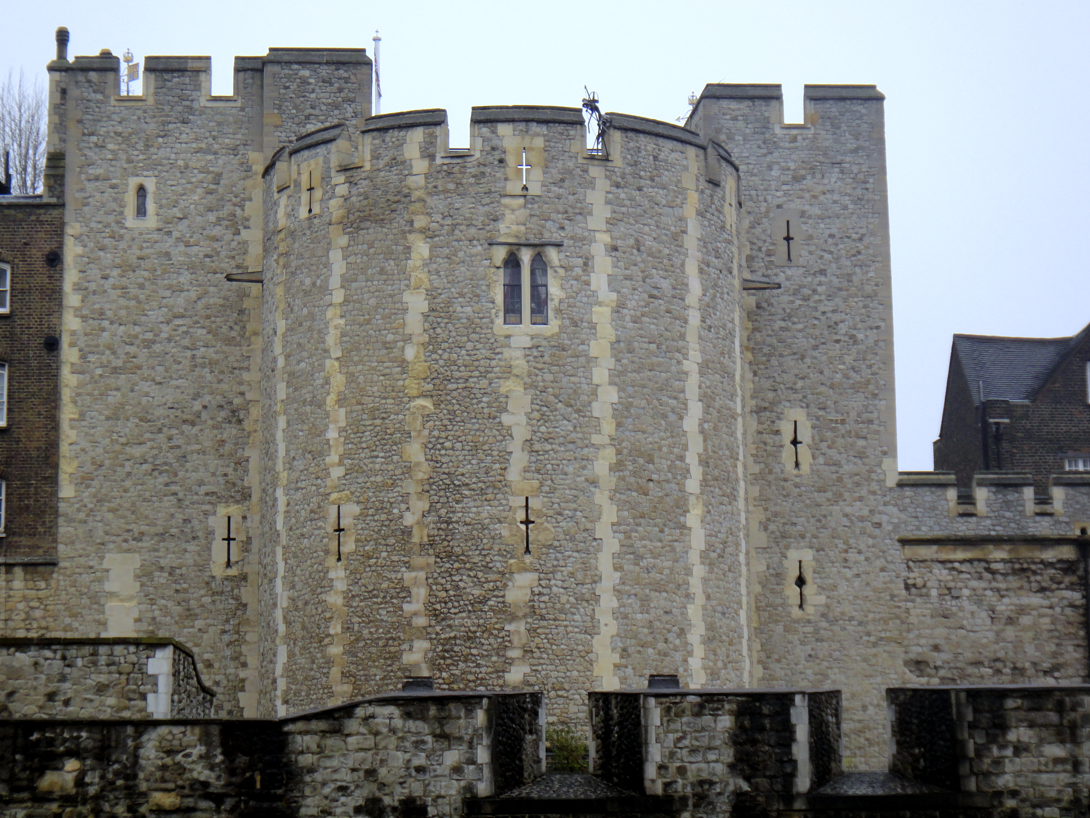 Beauchamp Tower, Tower of London, seen from the outsde